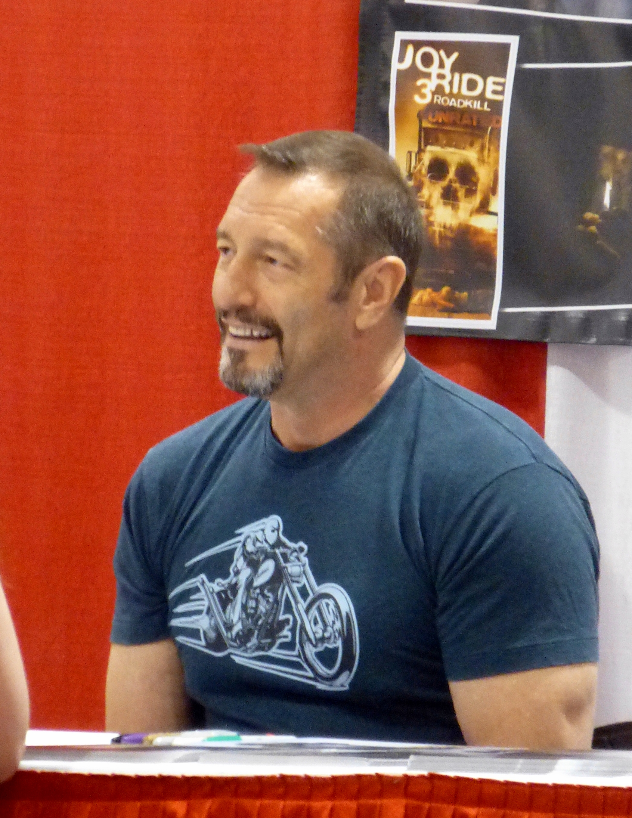 Ken Kirzinger in 2015